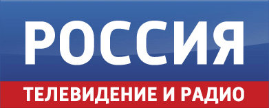 VGTRK logo (2012)